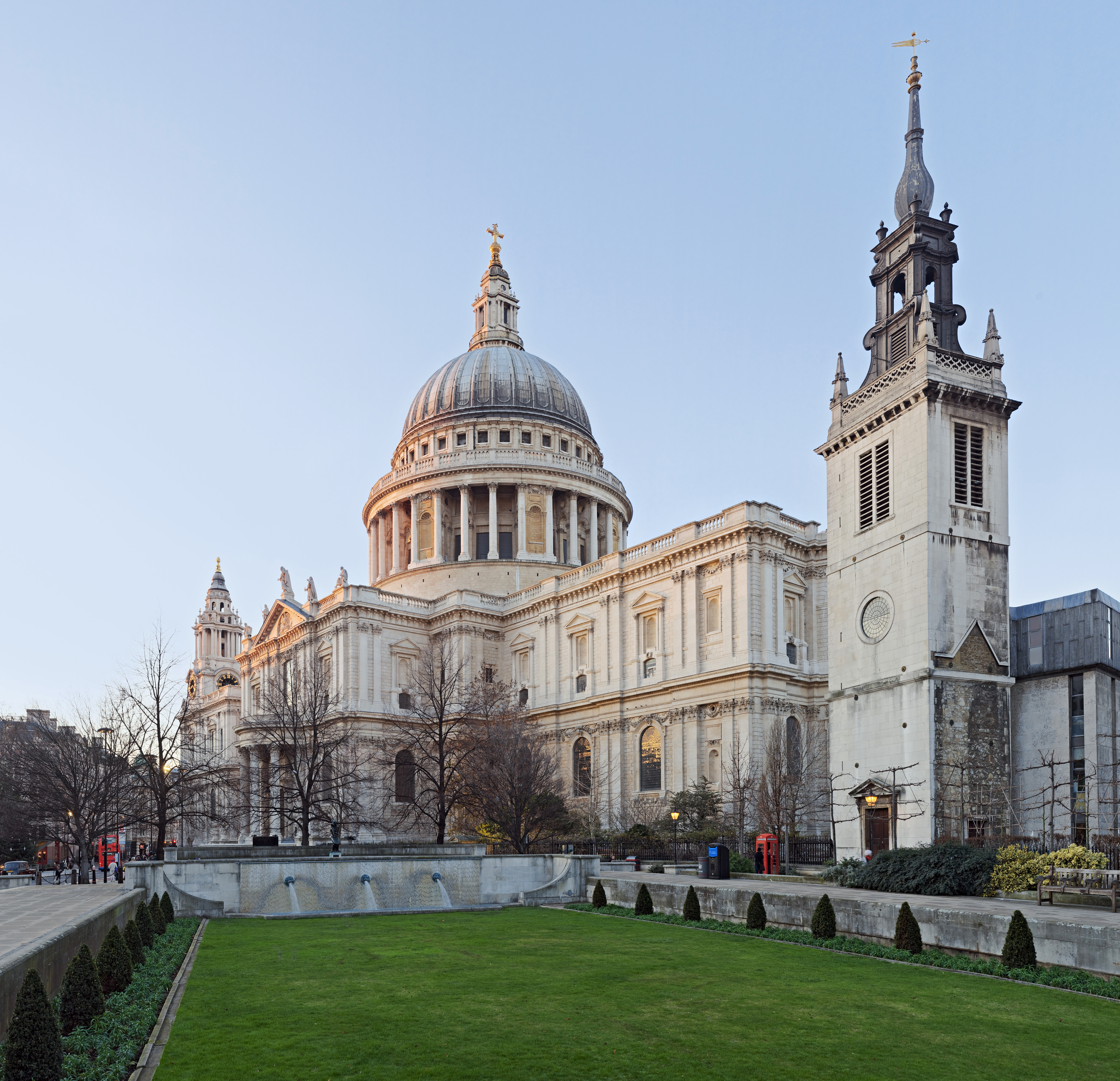 St Paul's Cathedral and the remaining tower of St Augustine, Watling Street, which was otherwise destroyed during World War 2. This is a HDR panoramic stitch, comprising 60 frames (3 exposures * 20 segments).